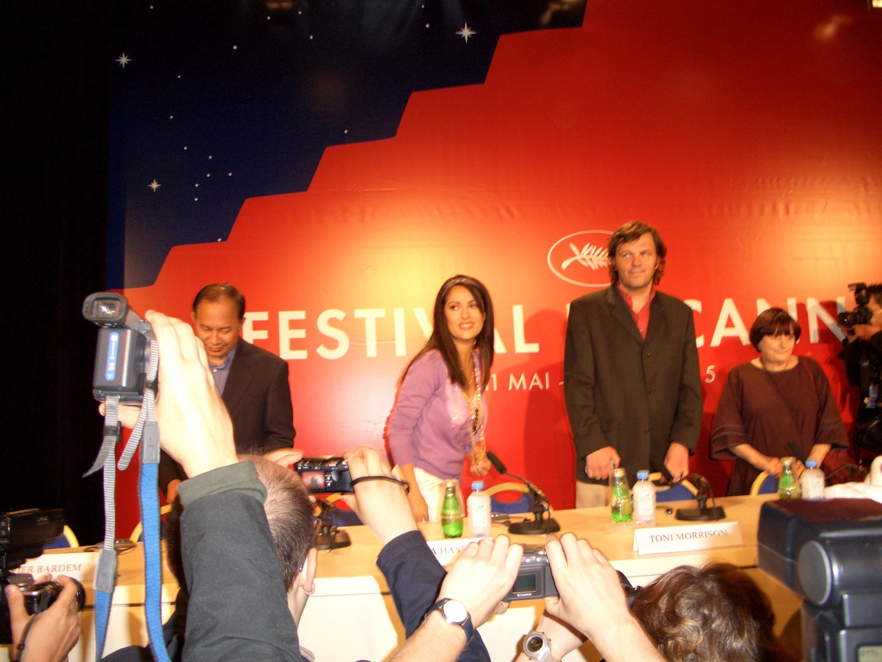 Festival de Cannes 2005. From left to right: John Woo, Salma Hayek, Emir Kusturica and Agnès Varda.